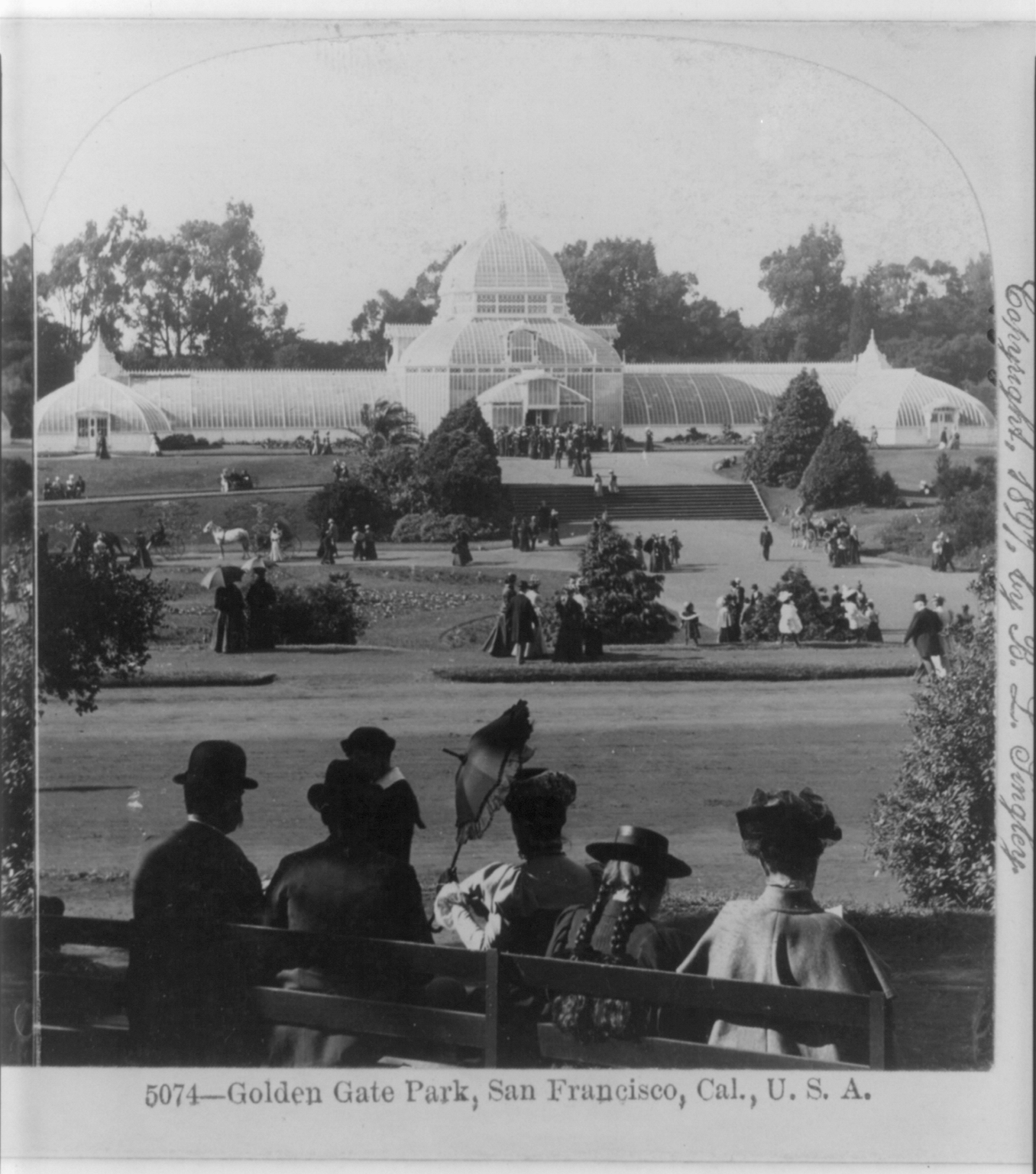 Historic view of the Conservatory of Flowers in San Francisco, California